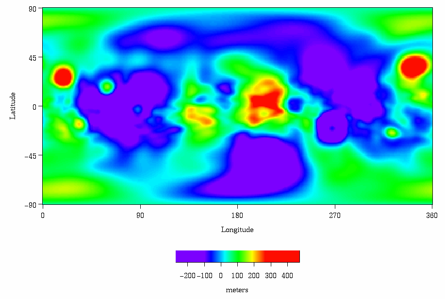 An example of GEOID Gravity mapping from the Clementine mission